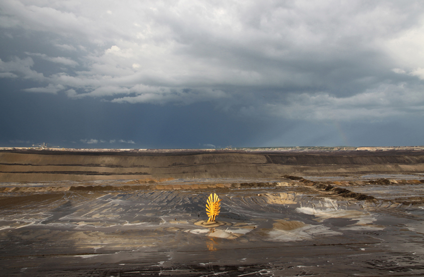 Sculpture "Phoenix" built within the coal daylight mining area of Welzow South in Brandenburg, Germany.